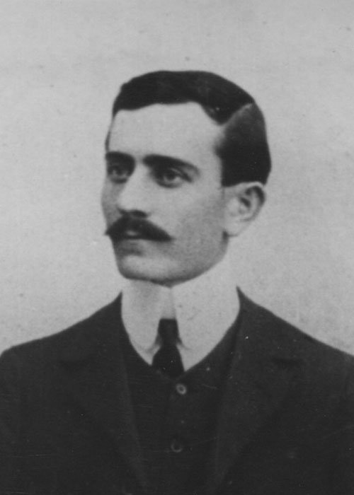 Bogdan Žerajić, headshot.